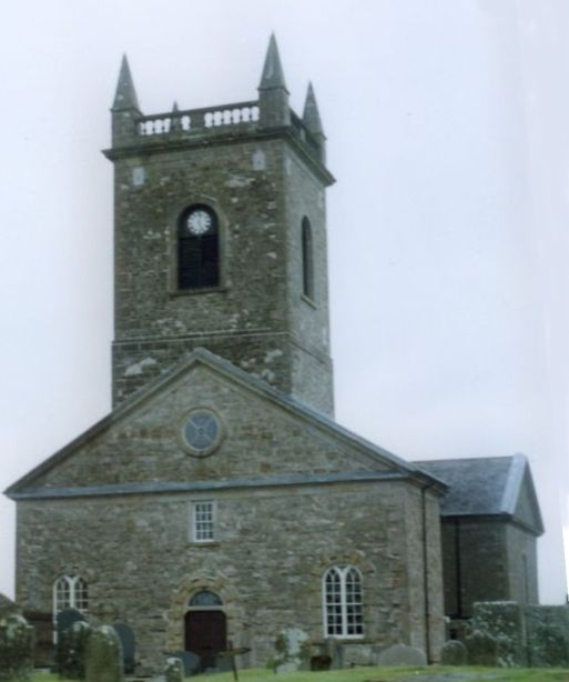 Clogher Cathedral, Co Tyrone. The present cathedral was built in 1744, when Bishop John Sterne was in charge.